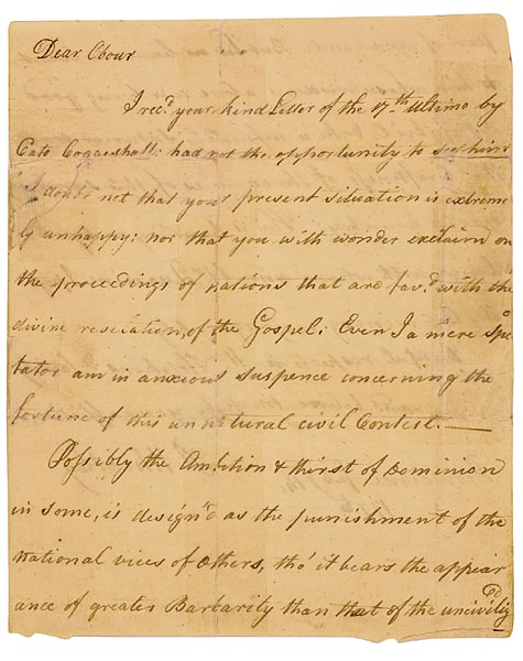 Letter from Phillis Wheatley to a friend, Obour Tanner, 1776. See also the back of the letter: File:Phillis wheatley letter to obour tanner 1776 back.jpg